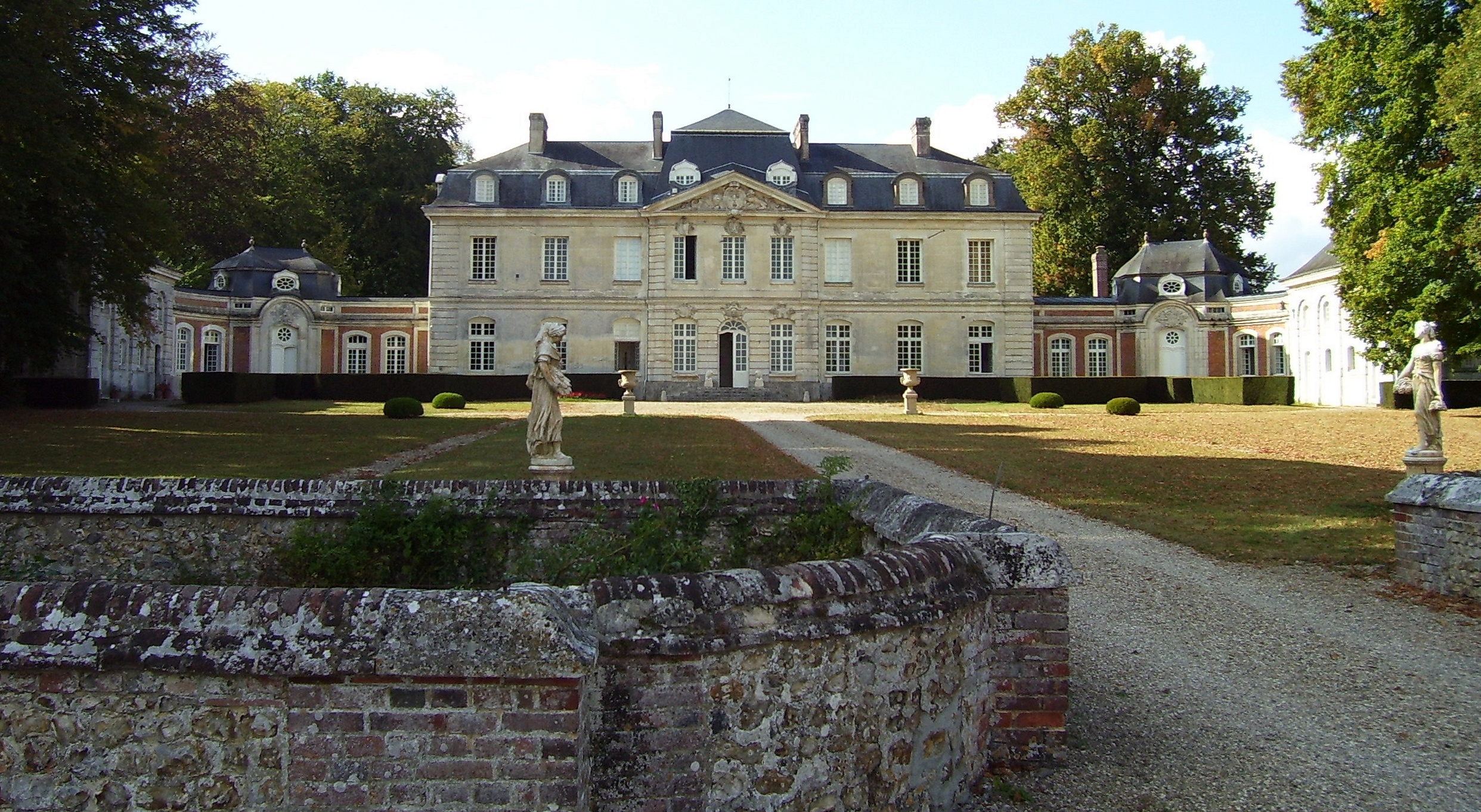 Forefront of the castle of Launay, which was built around 1730 and replaced an older castle. It is situated near Saint-Georges-du-Vièvre in the département Eure in the region Haute-Normandie of France.